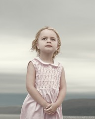 Portrait art work from Andrea Hamilton's 'Wondrous Strange' series